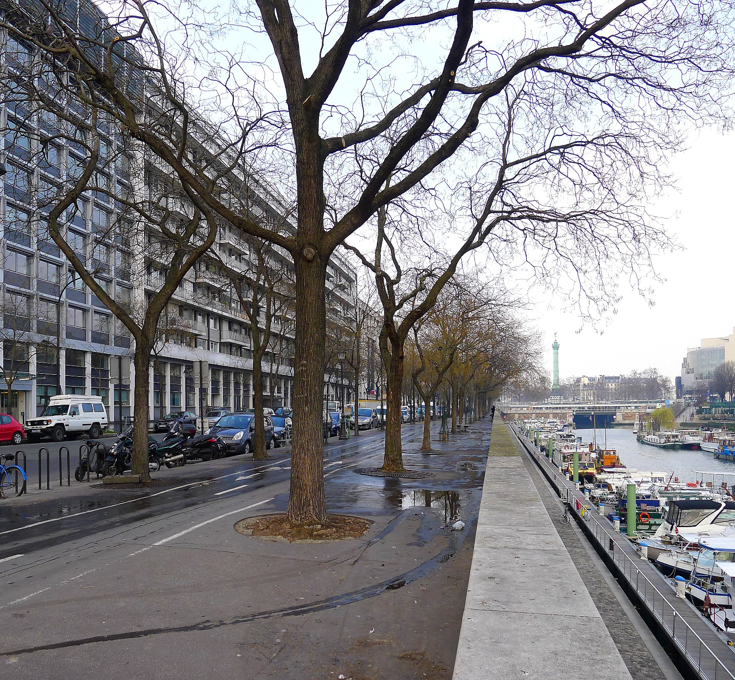 Bourdon boulevard - Paris